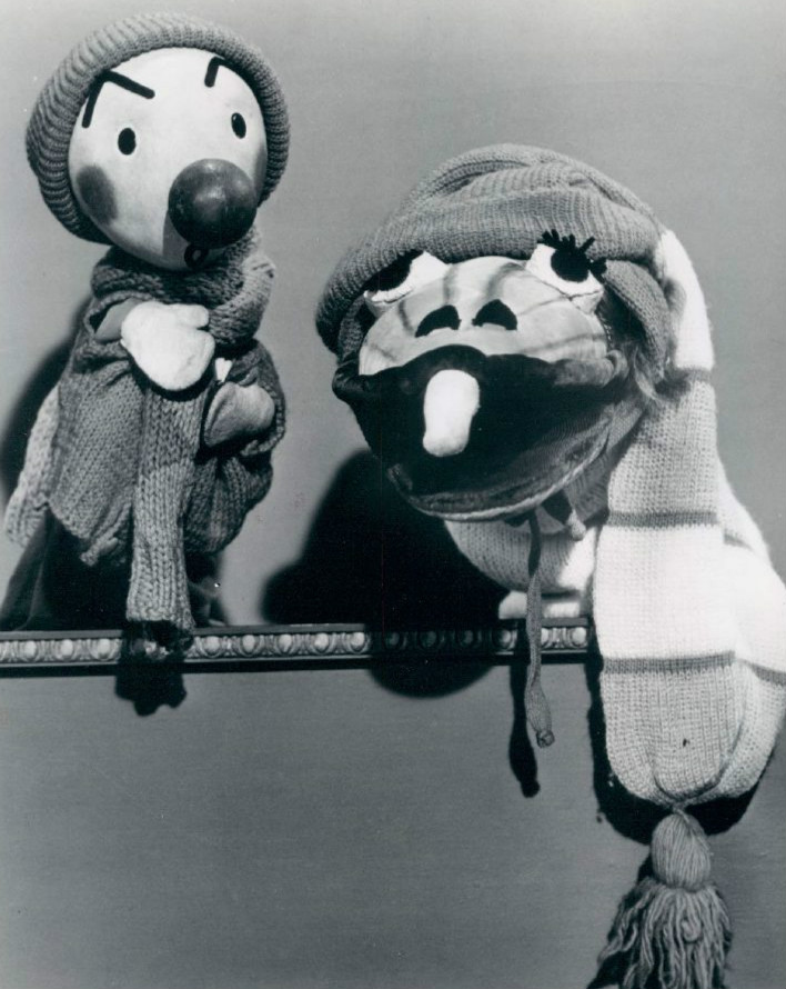 Publicity photo of Kukla and Ollie from Kukla, Fran, and Ollie.